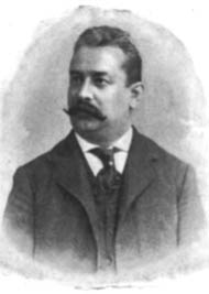 Portrait of Oscar schmidt, musical instruments manufacturer